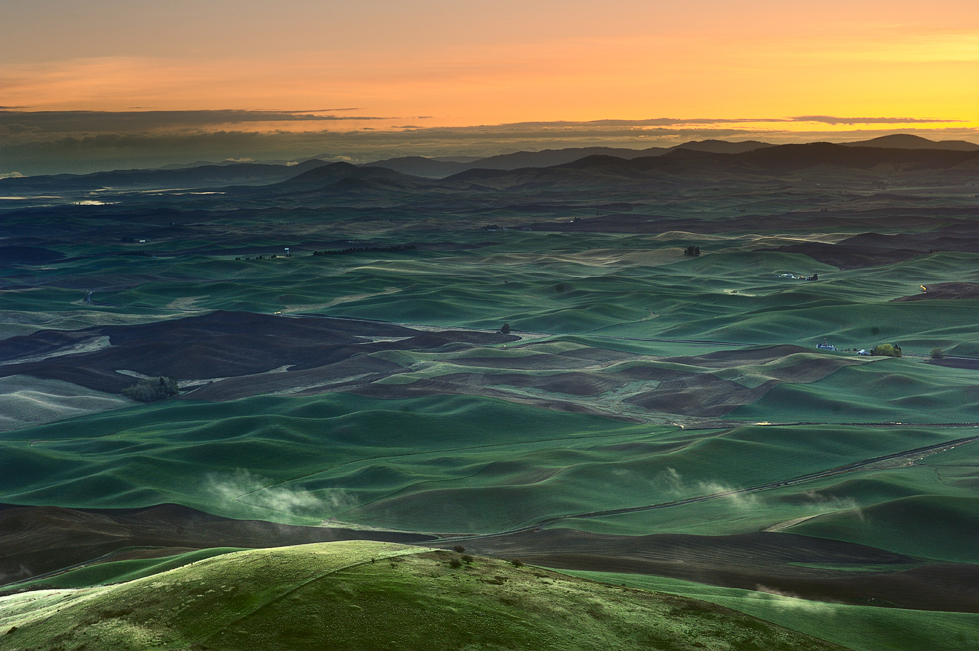 Palouse hills from Steptoe Butte in early morning light, USA